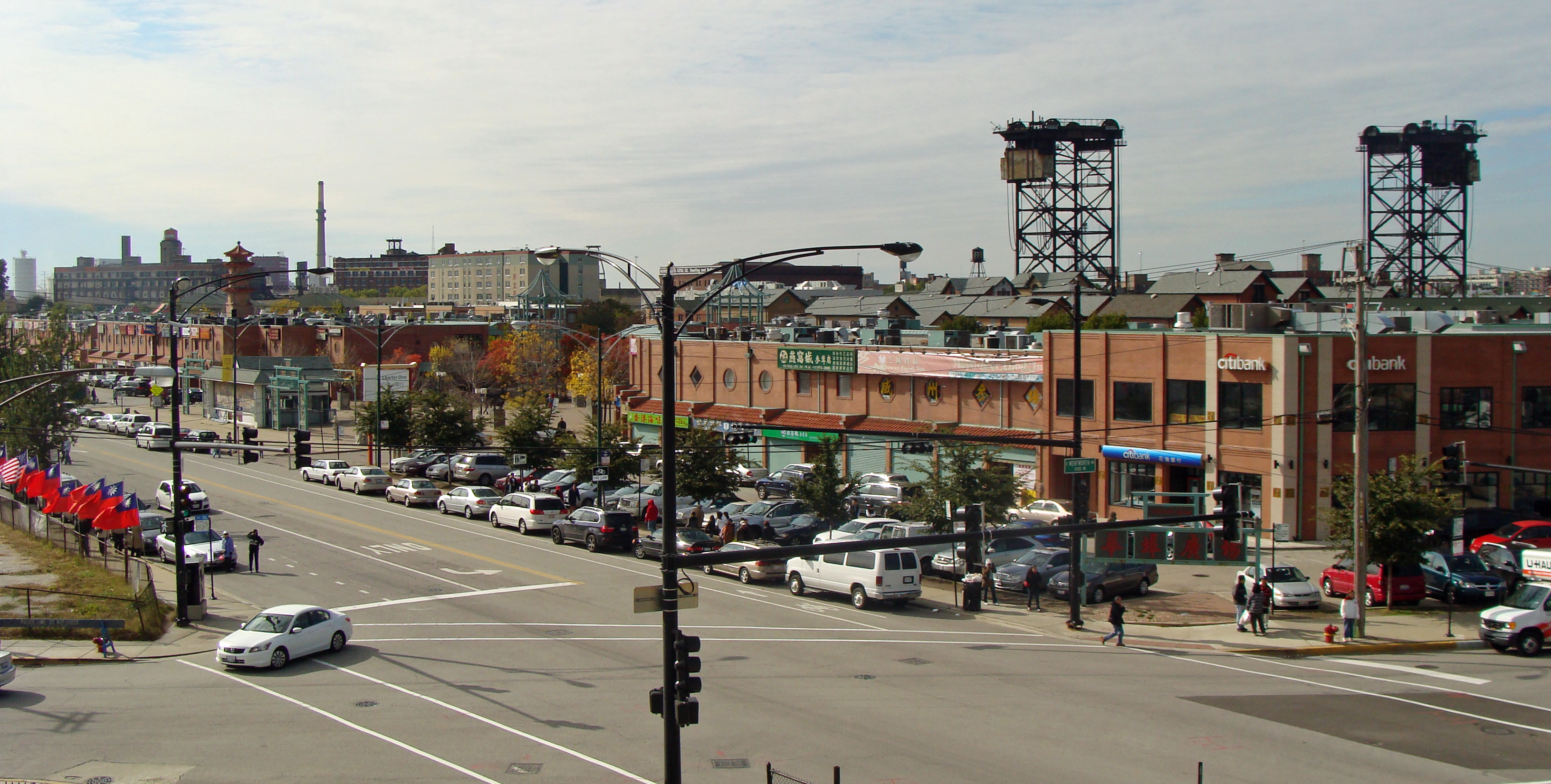 The Chinatown Squre complex as seen from the Red Line platform